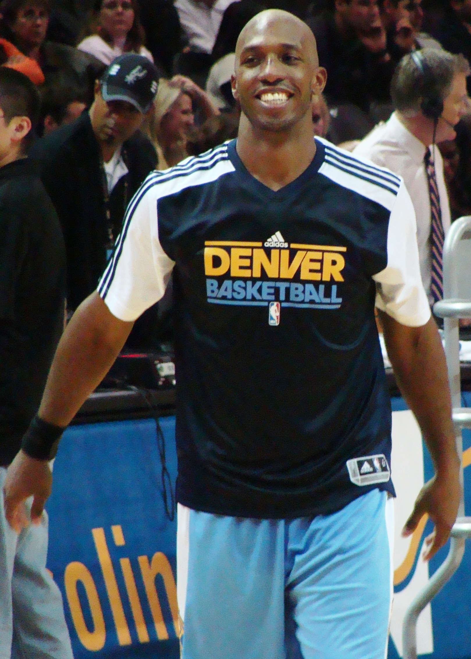 Chauncey Billups playing against The Spurs at the AT&T Center, during a match in the 2010 season.